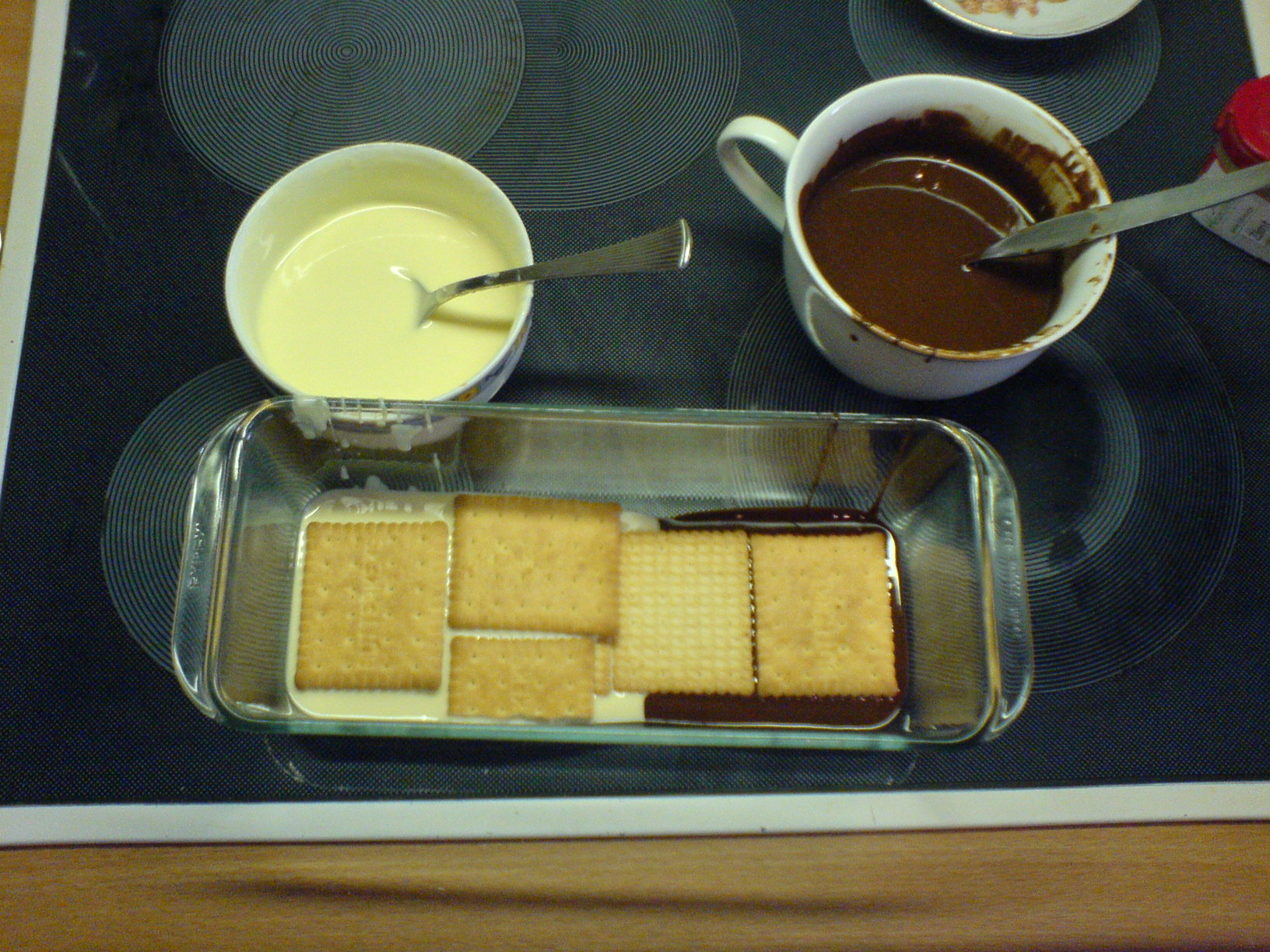 How a Lukullus is made